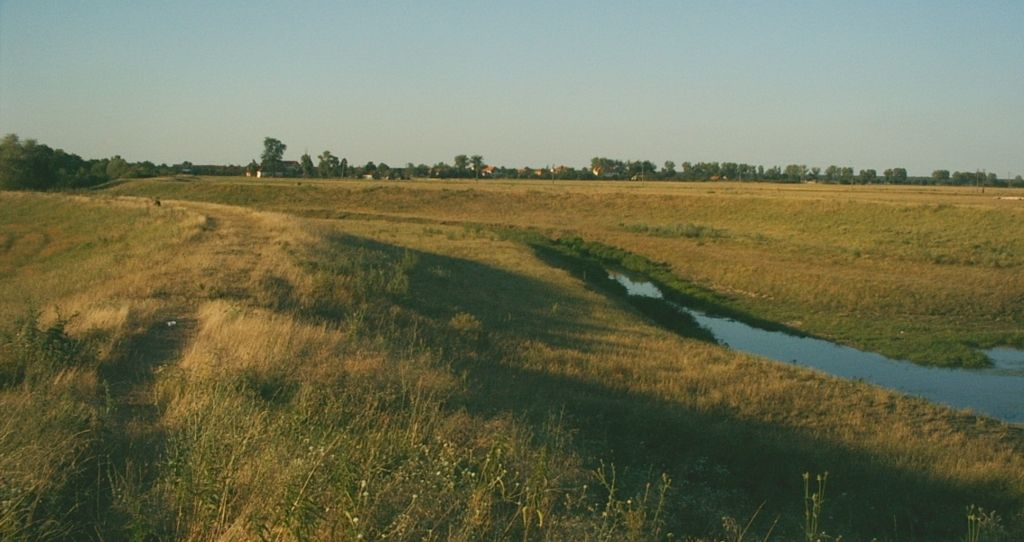 The Şurgani River upstream of the village of Chevereşu Mare in Timiş County, Romania